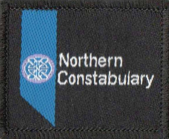 This very small patch was worn on the first issue of black polo shirts. Subsequent issues however simply had the word "POLICE" embroidered directly on to the shirt.